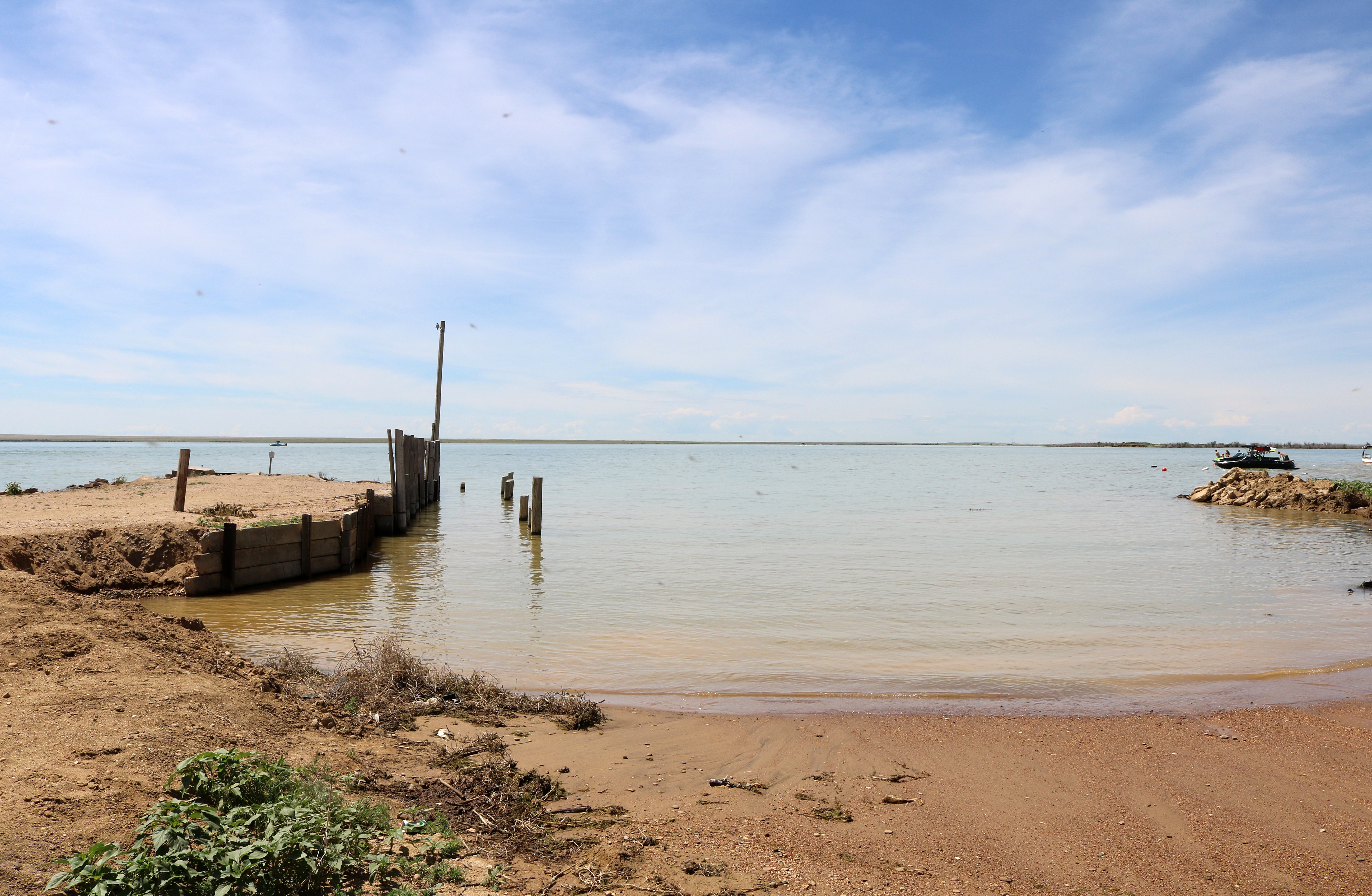 Lake Meredith in Crowley County, Colorado, near Sugar City.